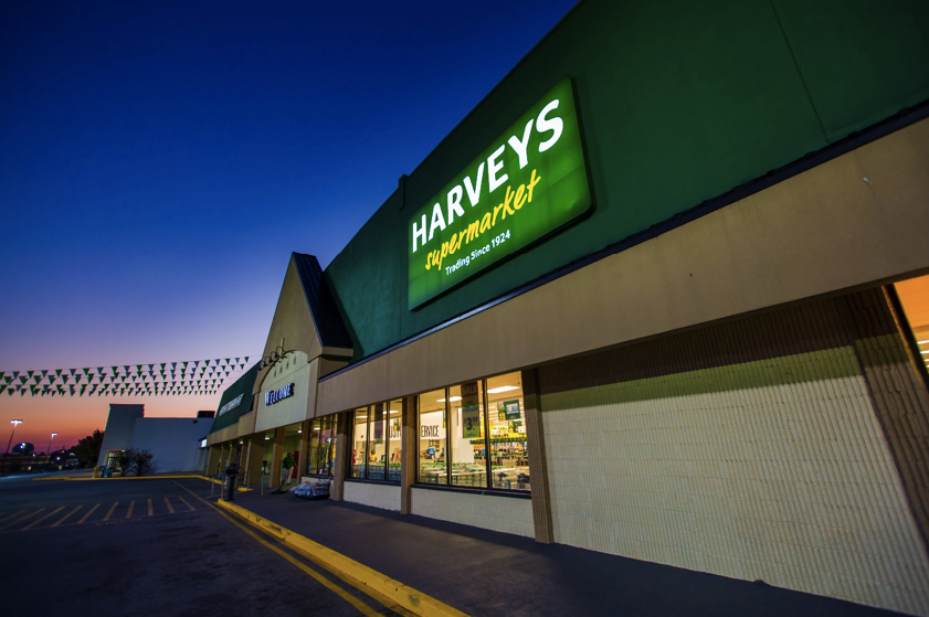 Harveys Supermarket in Albany, GA shot by Nate Deremer.